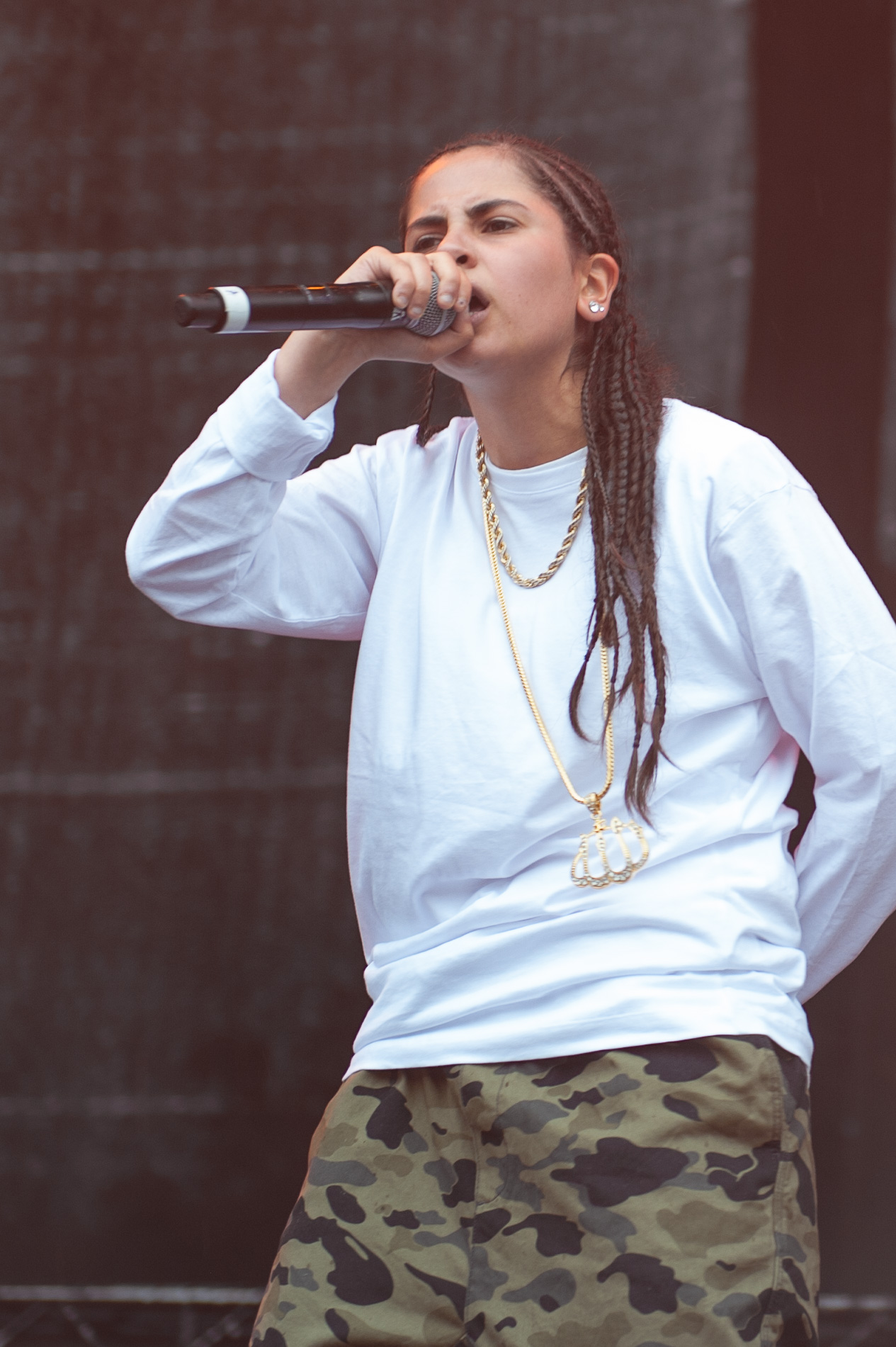 Rosh at Way Out West in Gothenburg, Sweden, August 2014